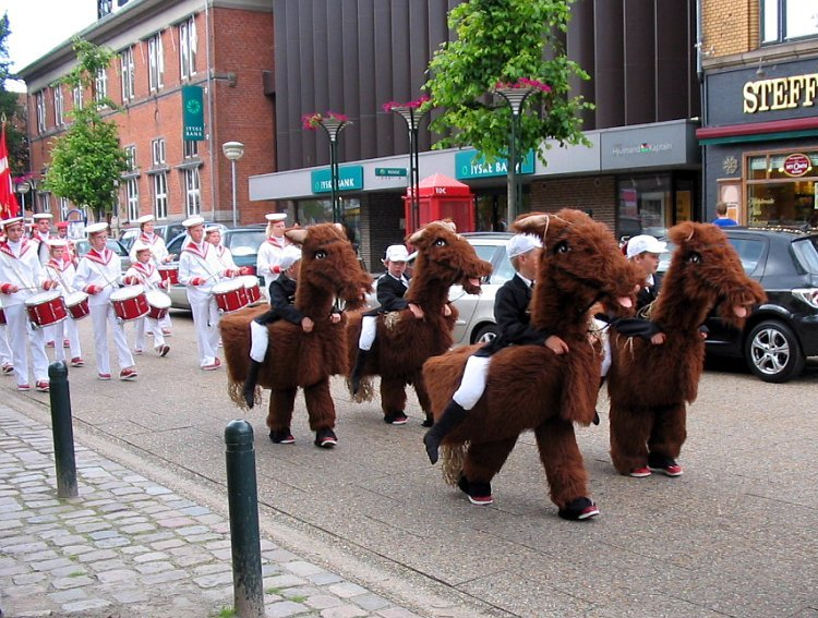 a parade in Hjørring, Denmark, 2004